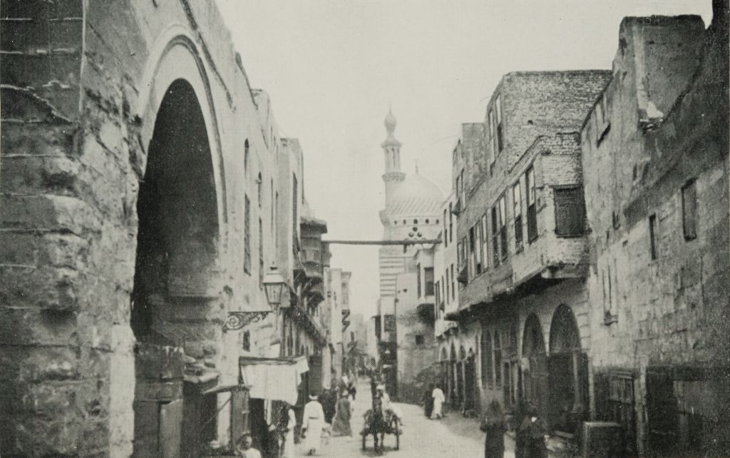 “A MEDIÆVAL STREET IN THE ARAB CITY OF CAIRO.”A view down an old street in Cairo. Black-and-white photograph. Suq al-Silah street, with the Madrasa of Aljay al-Yusufi in the back.